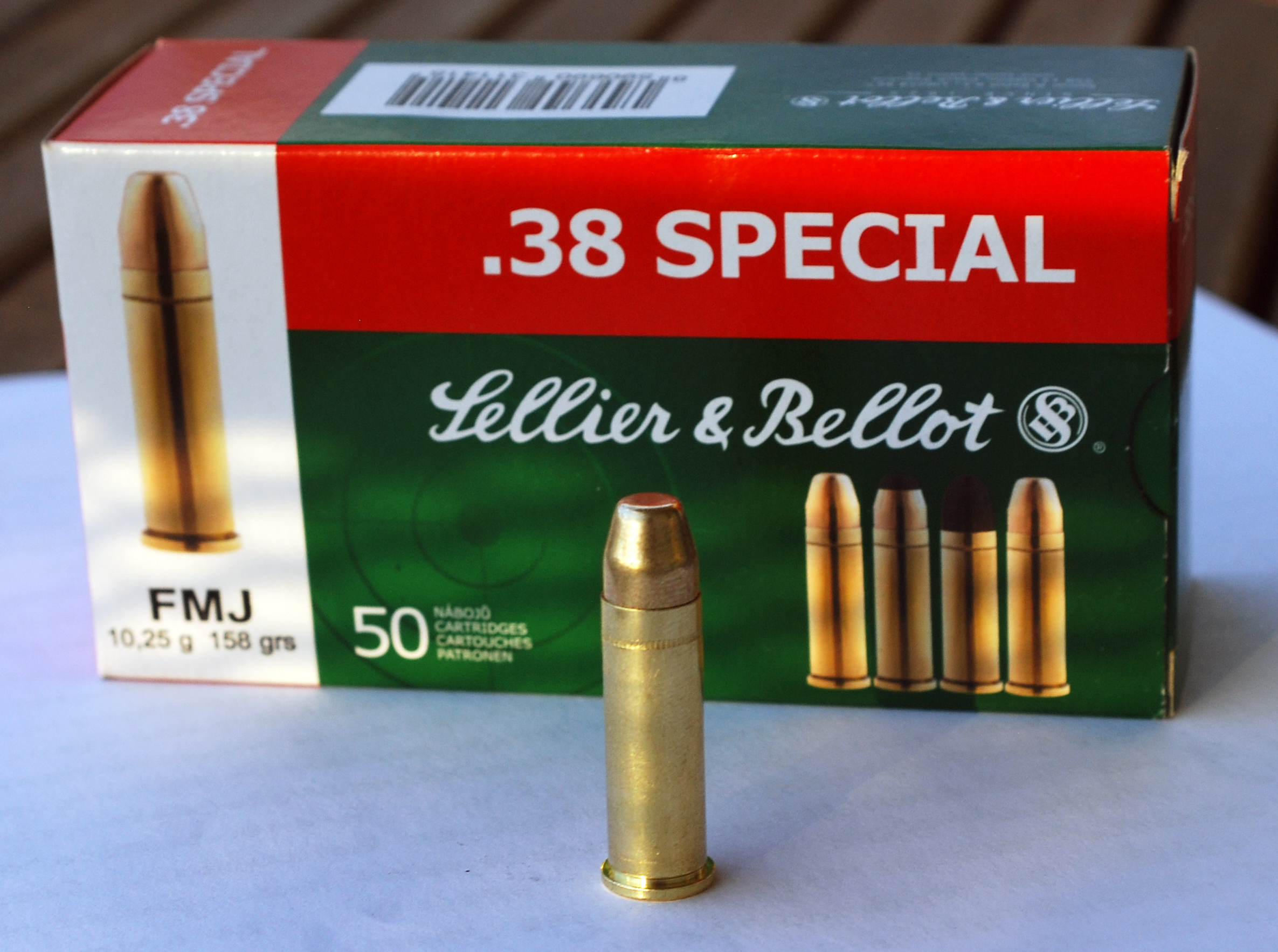 Full Metal Jacket version of .38 Special caliber. This version has a bullet completly jacketed in metal. This type of projectile is due it's rigidnes best for smooth penetrationg of targets without a devastating damage to tissue and deformation of the bullet.